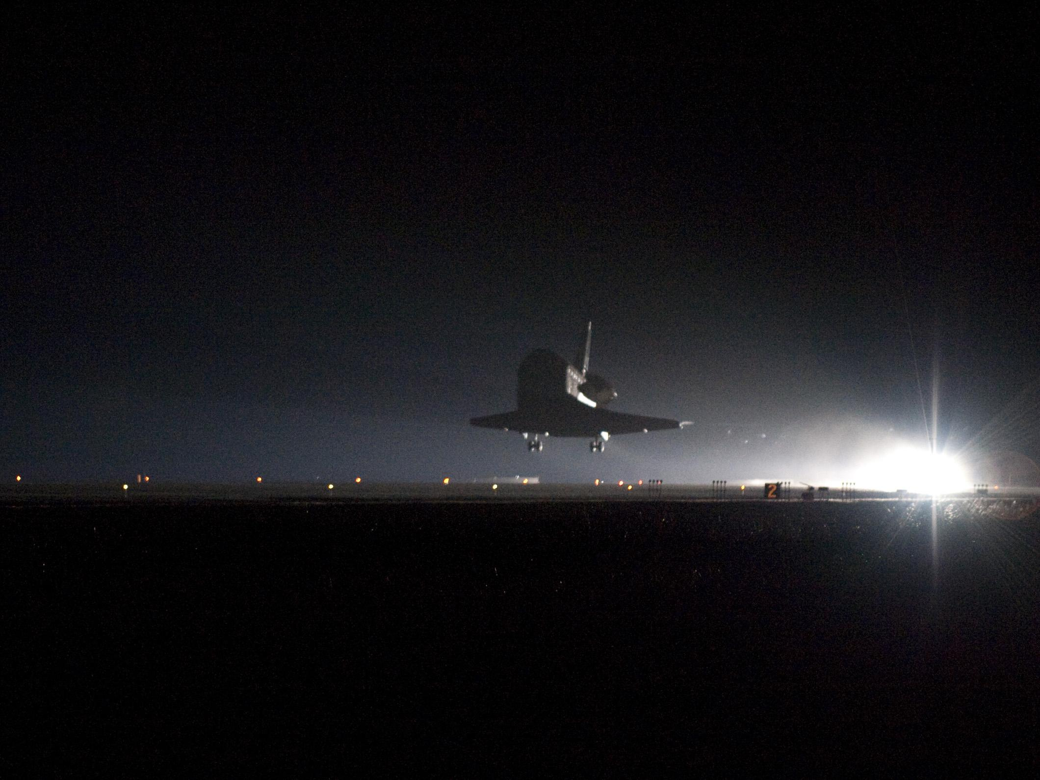 With landing gear down, space shuttle Endeavour approaches the Shuttle Landing Facility at NASA's Kennedy Space Center in Florida after 14 days in space, completing the 5.7-million-mile STS-130 mission. Endeavour landed at 10:20 p.m. EST on Sunday, Feb. 21, after delivering the new Tranquility node and its seven-window cupola to the International Space Station. Returning to Earth aboard Endeavour are Commander George Zamka; Pilot Terry Virts; and Mission Specialists Robert Behnken, Nicholas Patrick, Kathryn Hire and Stephen Robinson.